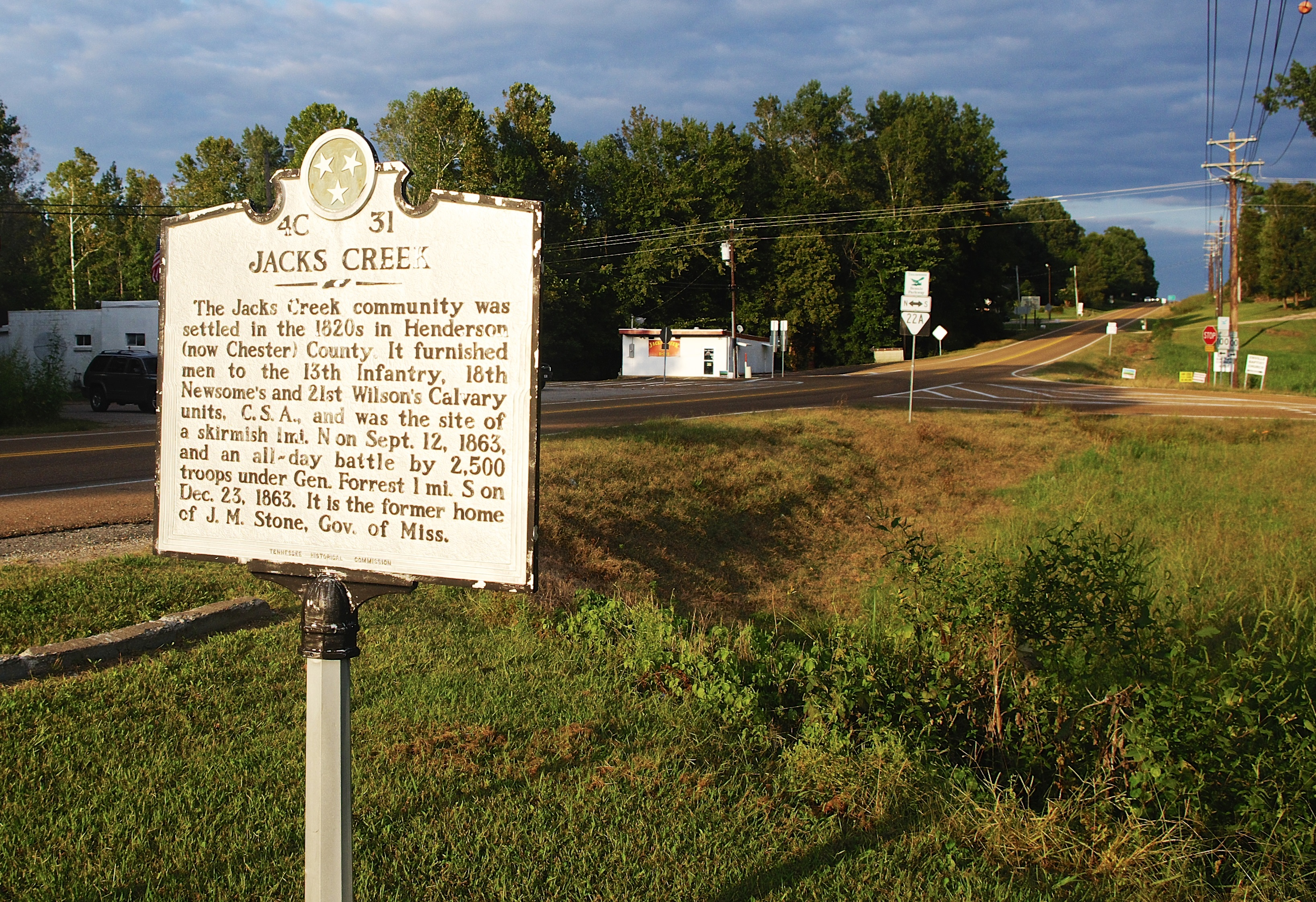 Tennessee Historical Commission marker along Tennessee State Route 100 in Jacks Creek, Tennessee, United States.